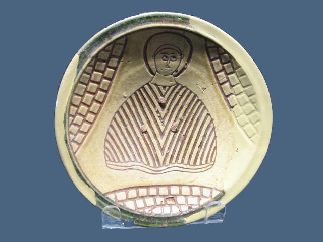 Dish with depiction of Saint. Byzantine, 12-13th century CE terracotta from the excavations at Sultanahmet.